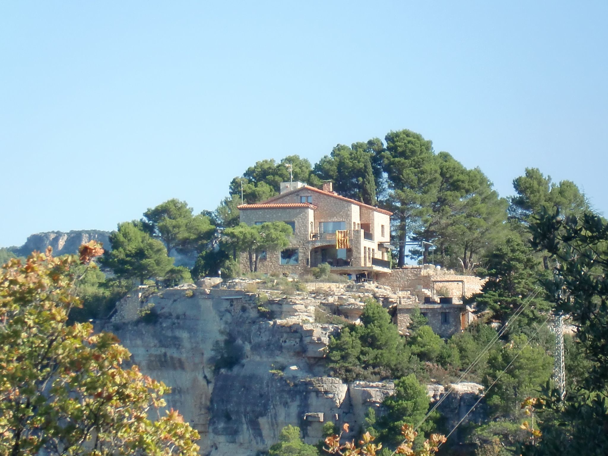 House in Siurana where the nazi Jan Buyse lived and died